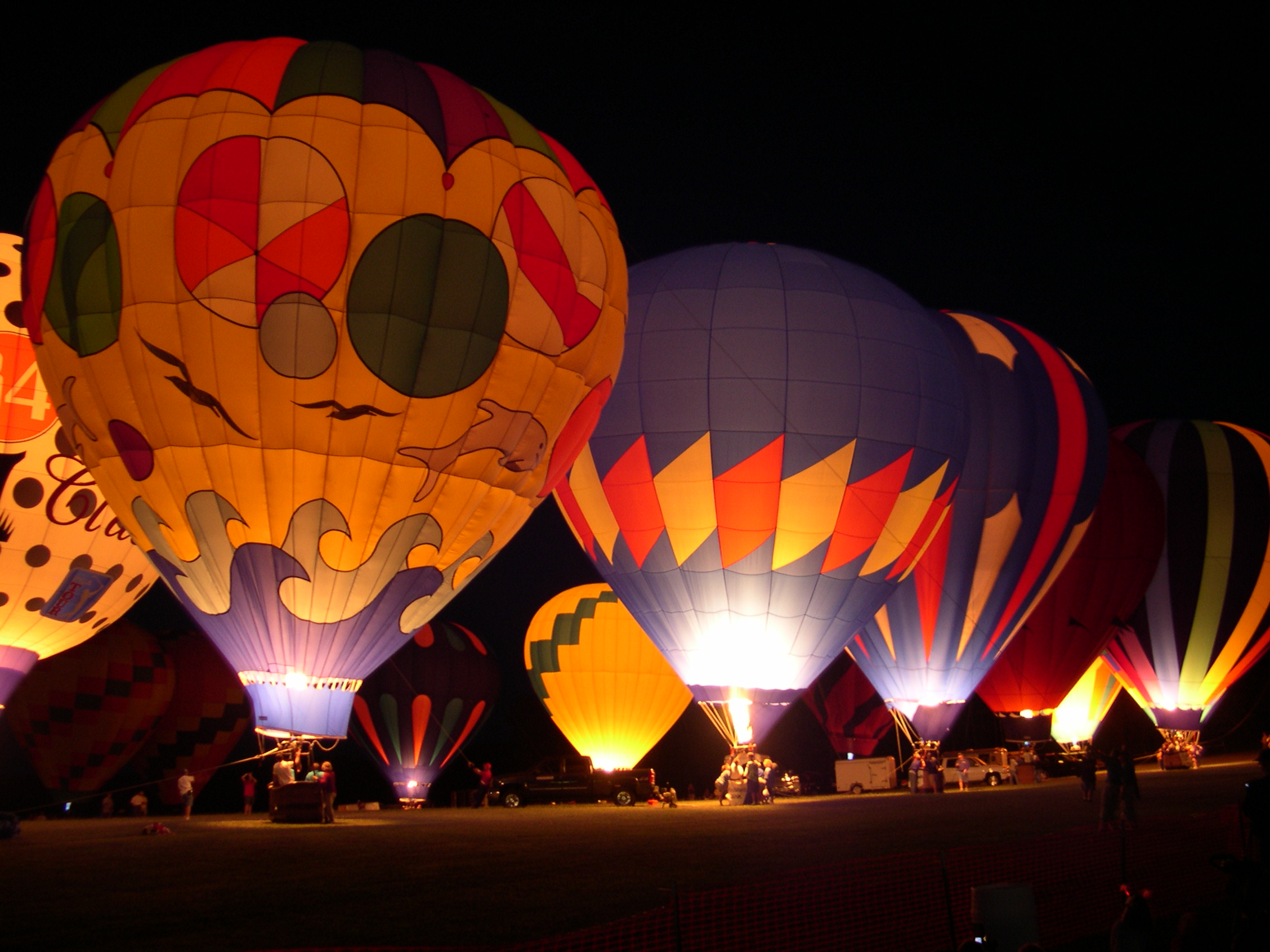 Hot air balloon "glow" Photo taken at the Ashland, Ohio Balloonfest, 2005